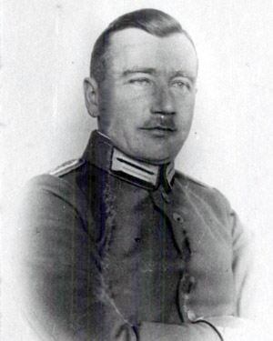 Commander at the airship base in Tønder